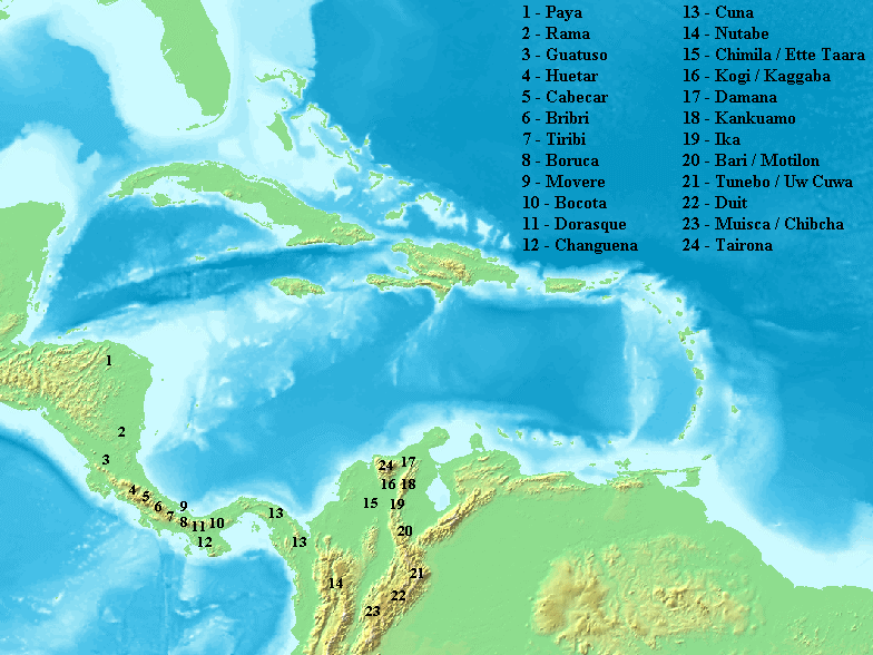 Distribution of the chibchan languages. The data regarding the distribution was taken from this map